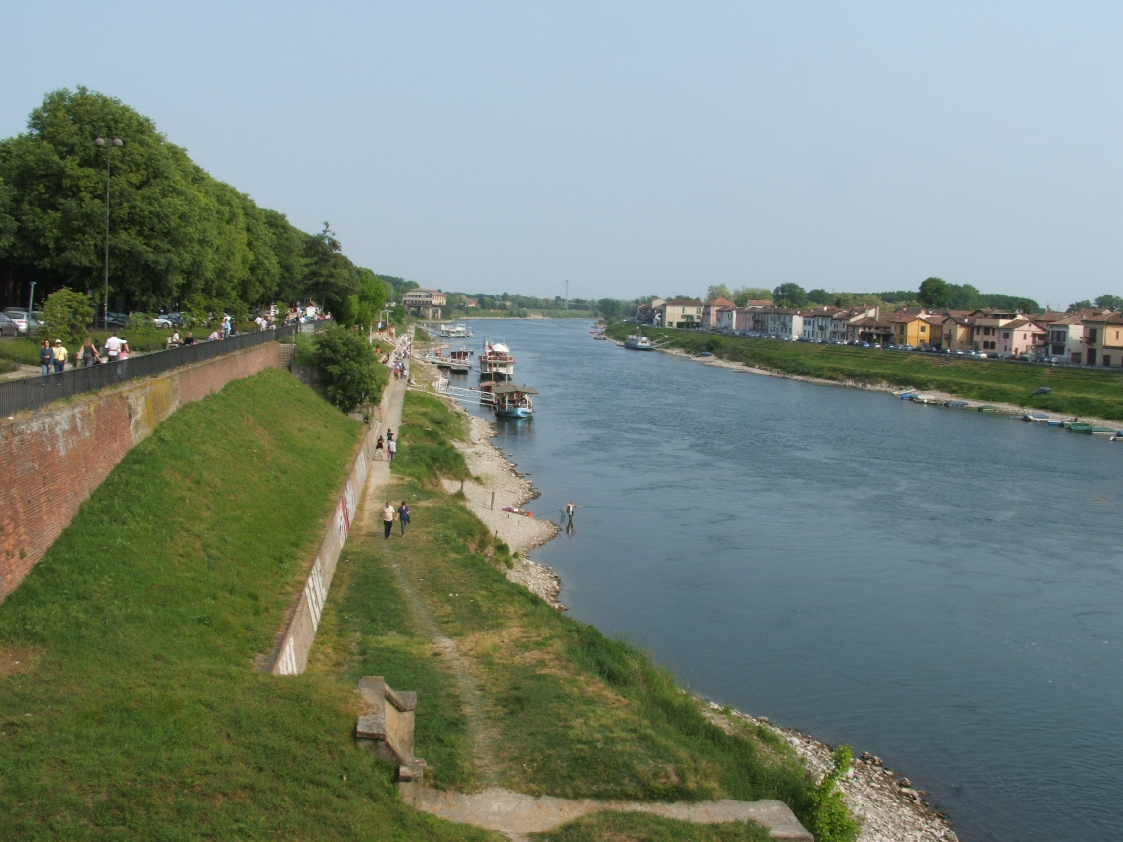 Pavia, Italy - Ticino river from covered bridge